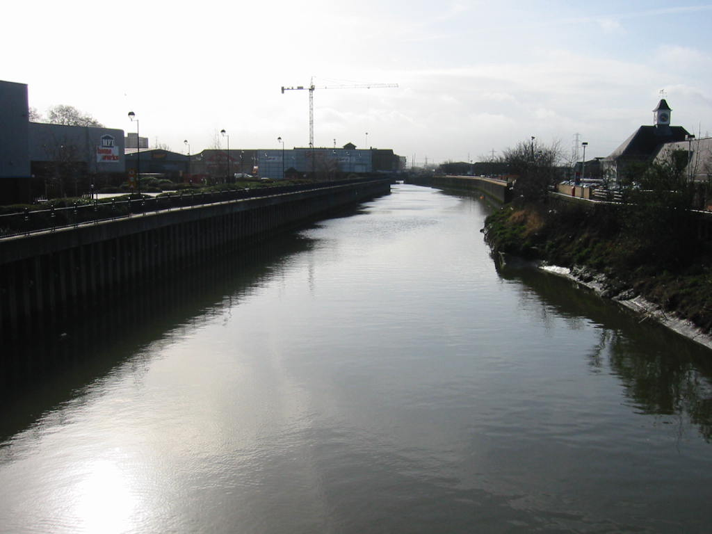 River Roding, London. I took the picture myself. Category:Images of Barking & Dagenham Category:Images of Newham